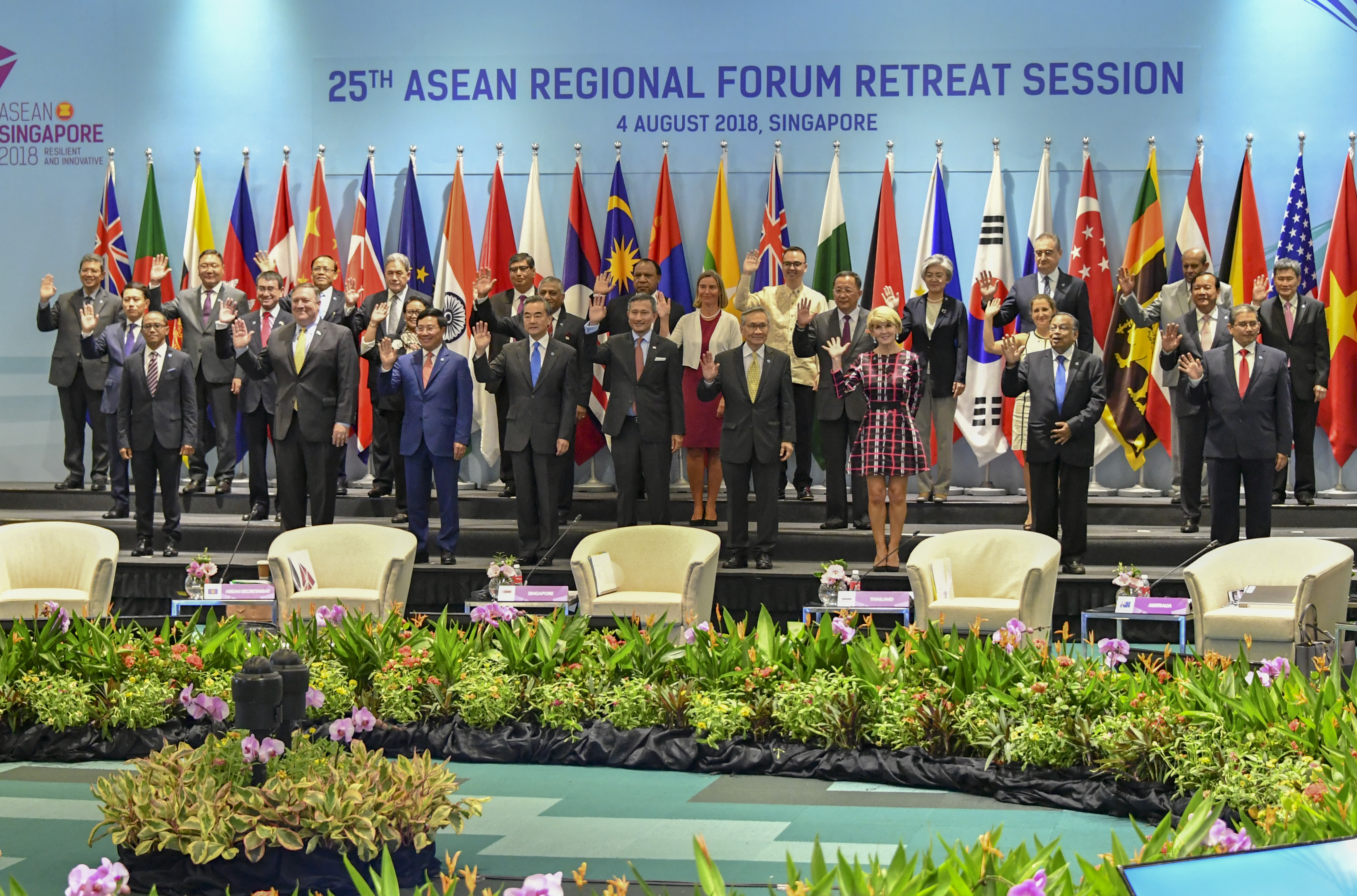 Participants of the ASEAN Regional Forum Retreat pose for a photo in Singapore, Singapore, August 4, 2018. [State Department Photo / Public Domain]